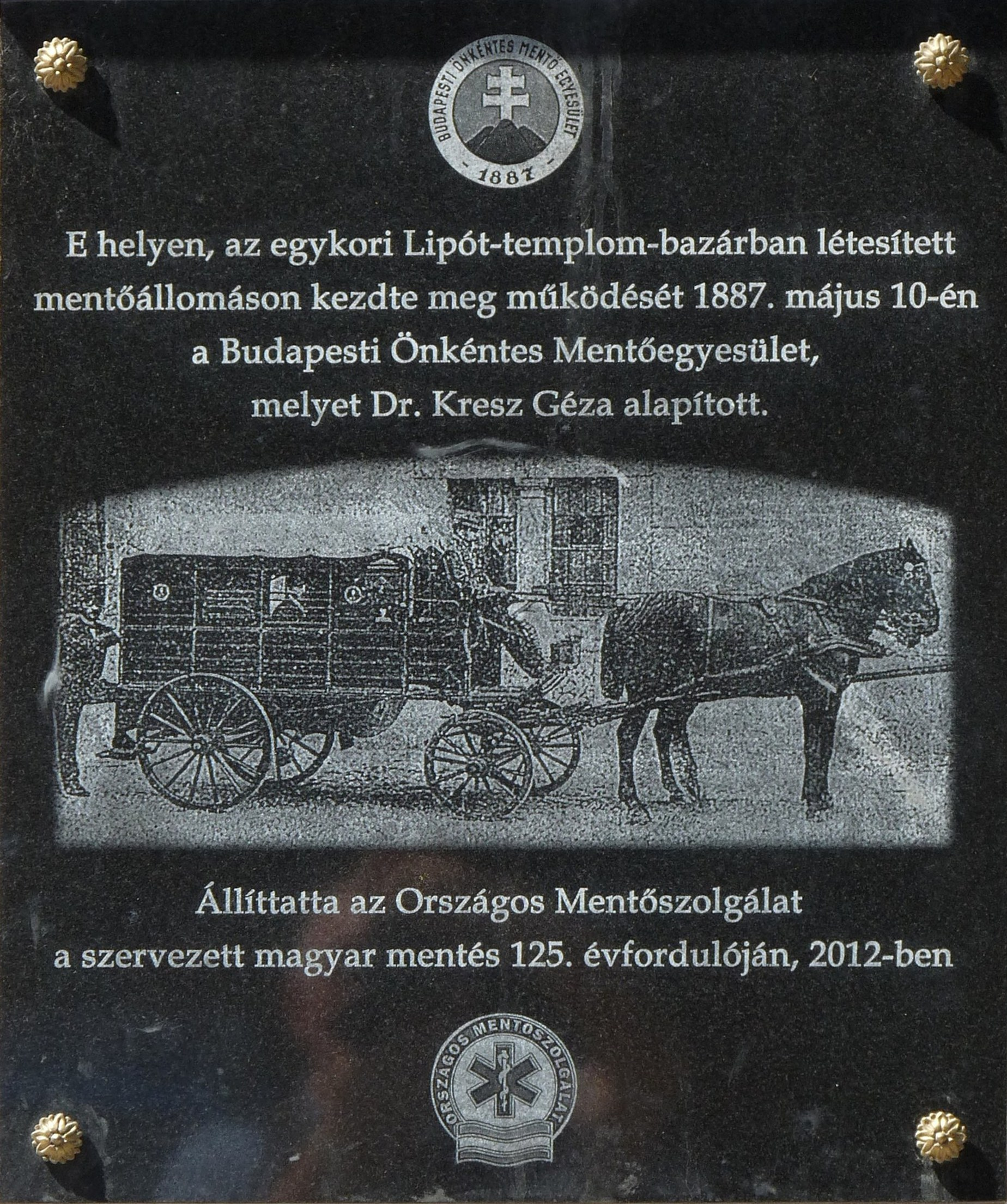 Plaque commemorating the 125th anniversary of the fondation of the Budapest Voluntary Ambulance Society. It was placed in the south railing of the St. Stephen's Basilica, where the first ambulance station began work May 10, 1887. (Budapest, District V, Szent István Square Nr 1)